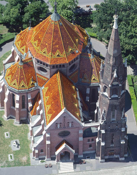 Szilágyi Dezső Square, Budapest, Hungary, temple